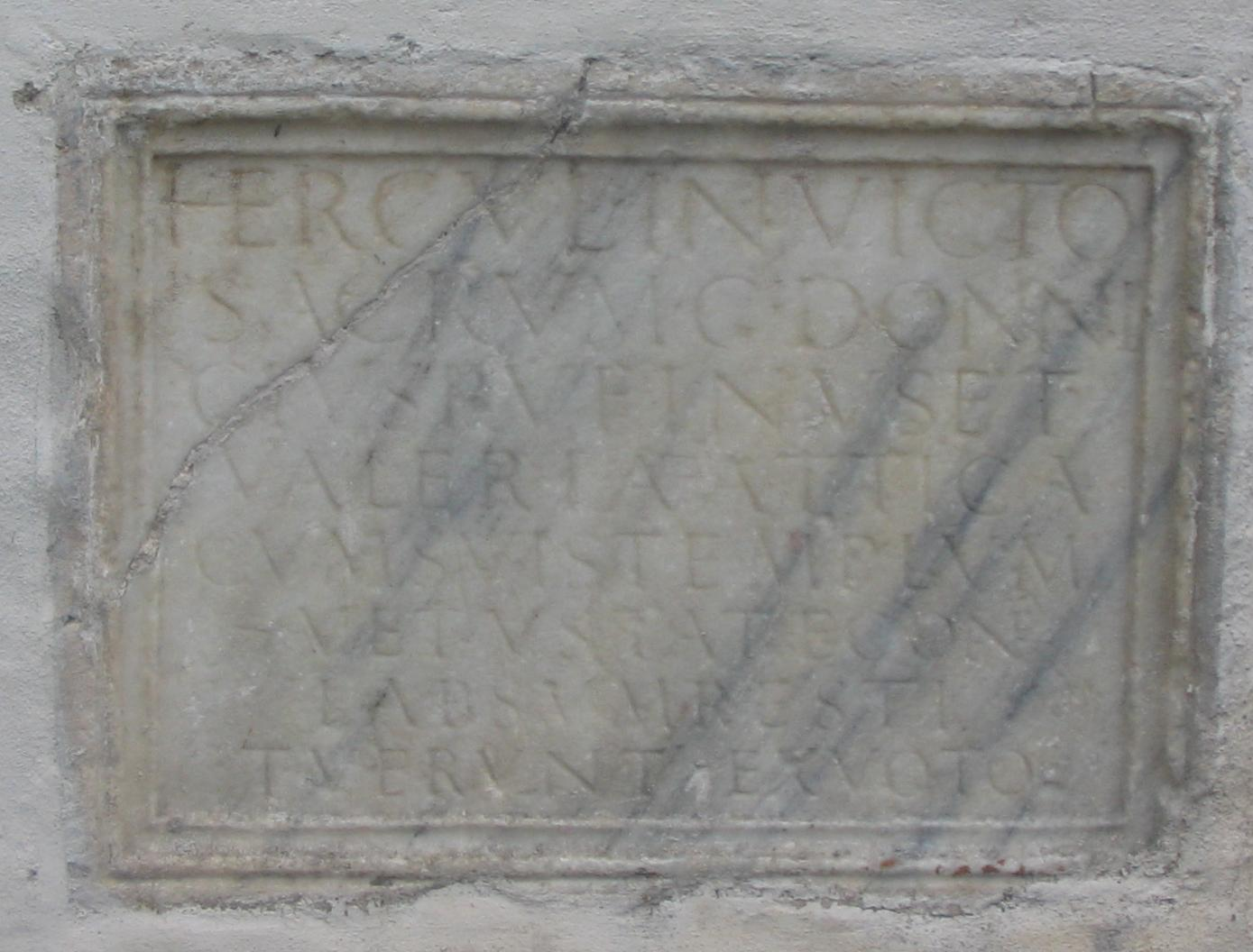 Roman writing in stone on the catholic church on Danielsberg, Penk, Gemeinde Reißeck, Bezirk Spittal an der Drau, Carinthia, Austria.